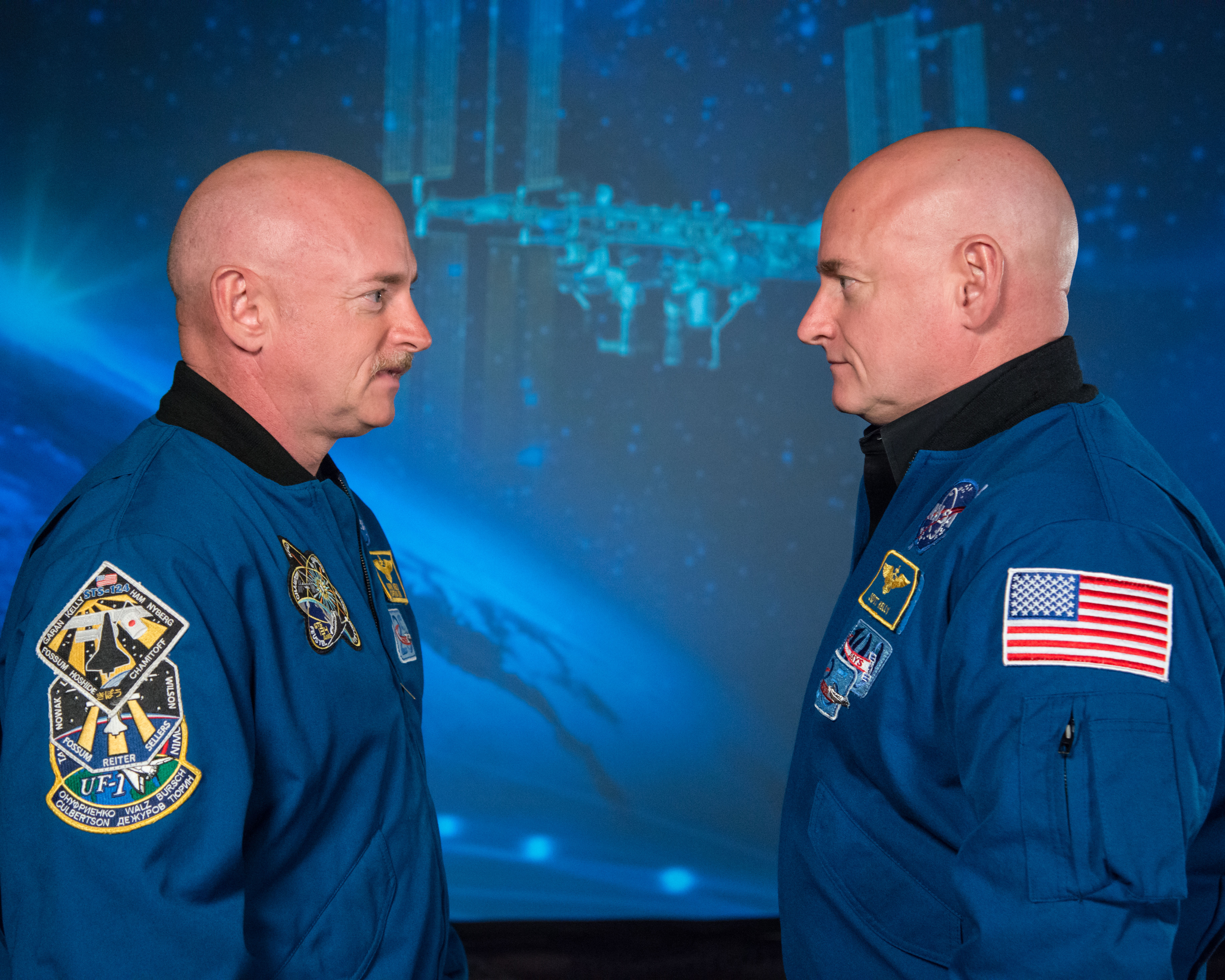 On Jan. 19, 2015 Expedition 45/46 Commander, Astronaut Scott Kelly along with his brother, former Astronaut Mark Kelly at the Johnson Space Center speak to news media outlets about Scott Kelly's 1-year mission aboard the International Space Station.